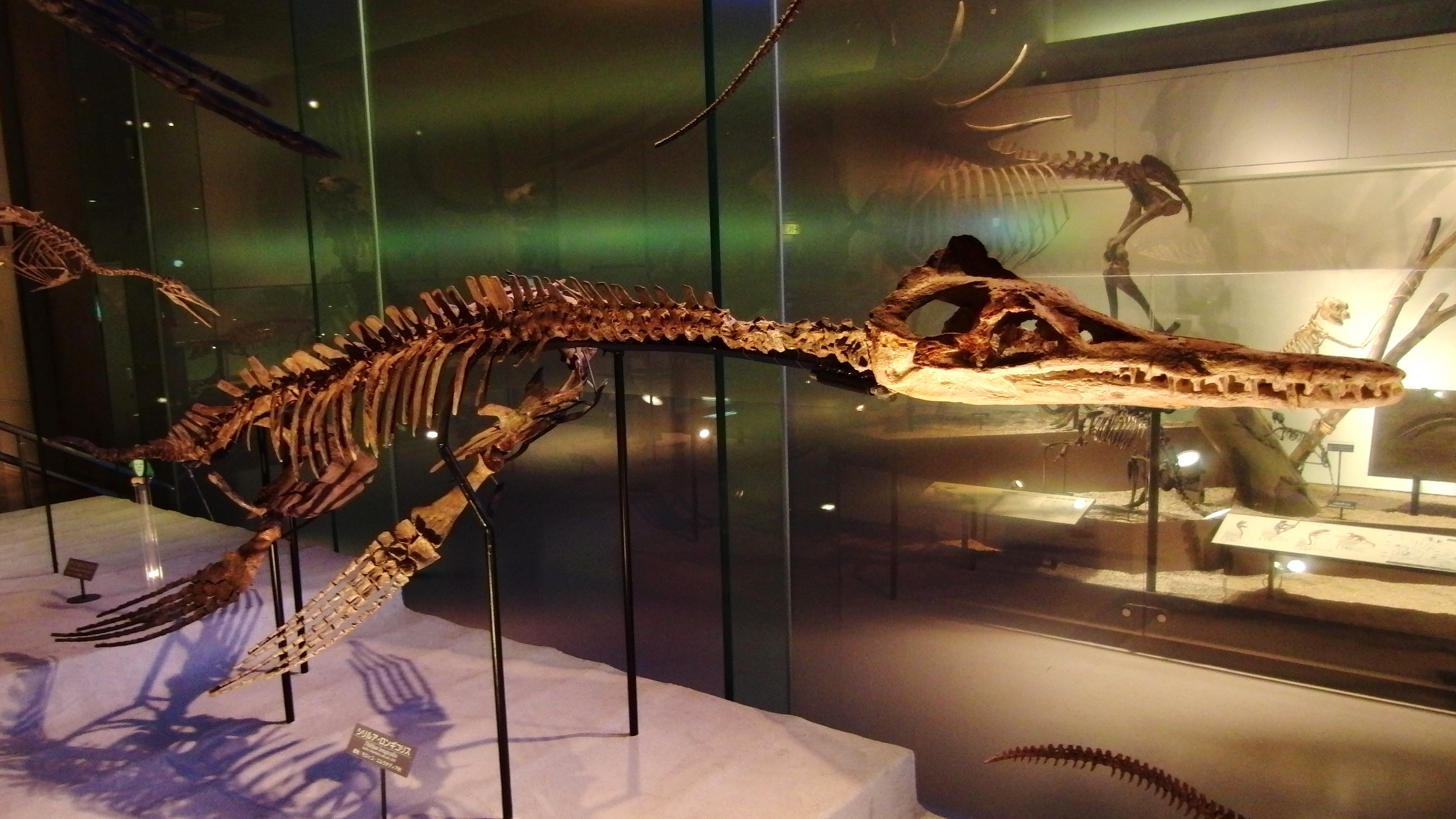 Skeleton of Thililua longicollis. Exhibit in the National Museum of Nature and Science, Tokyo, Japan.